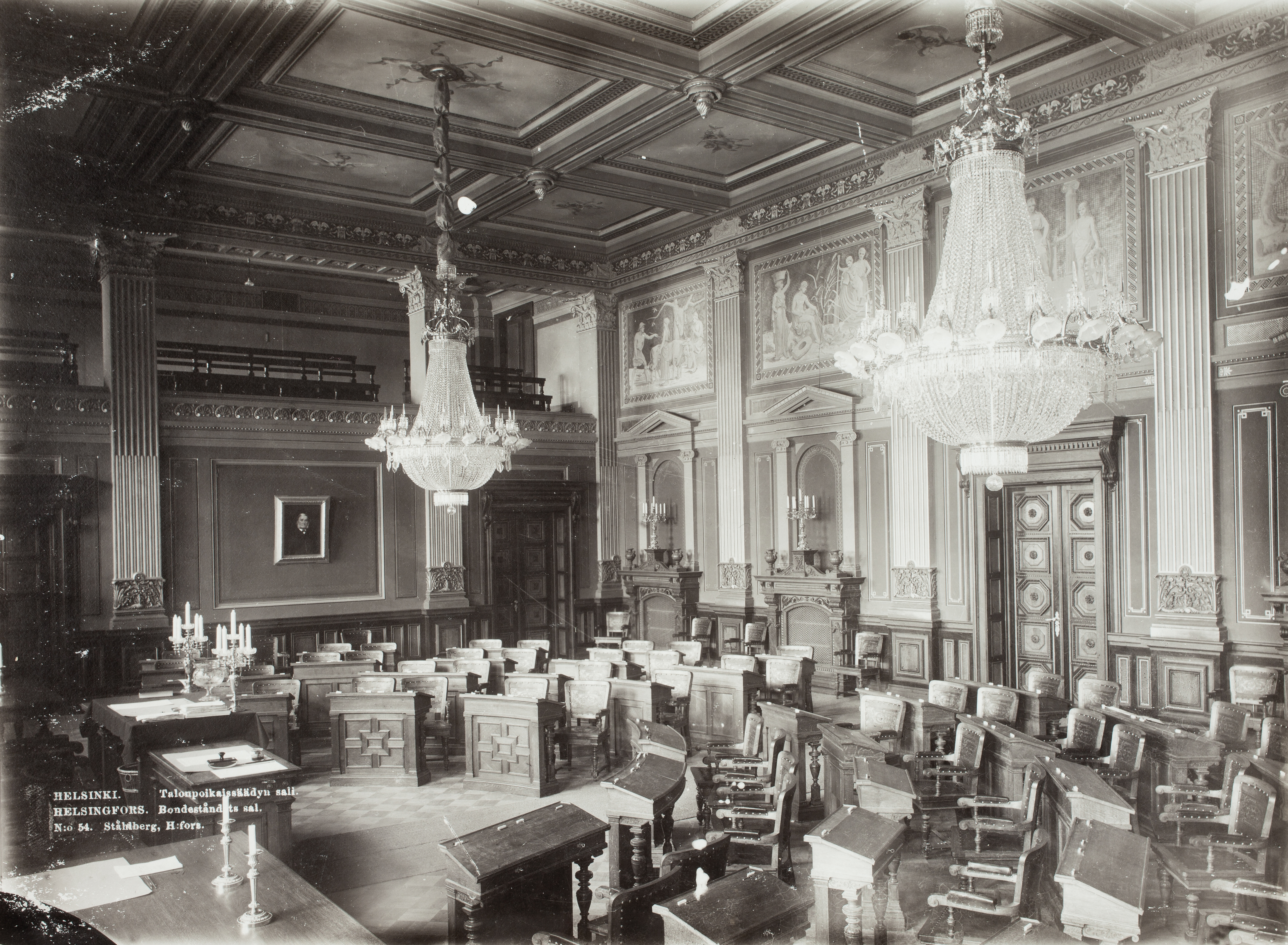 The hall of the peasants in the House of the Estates in Helsinki.